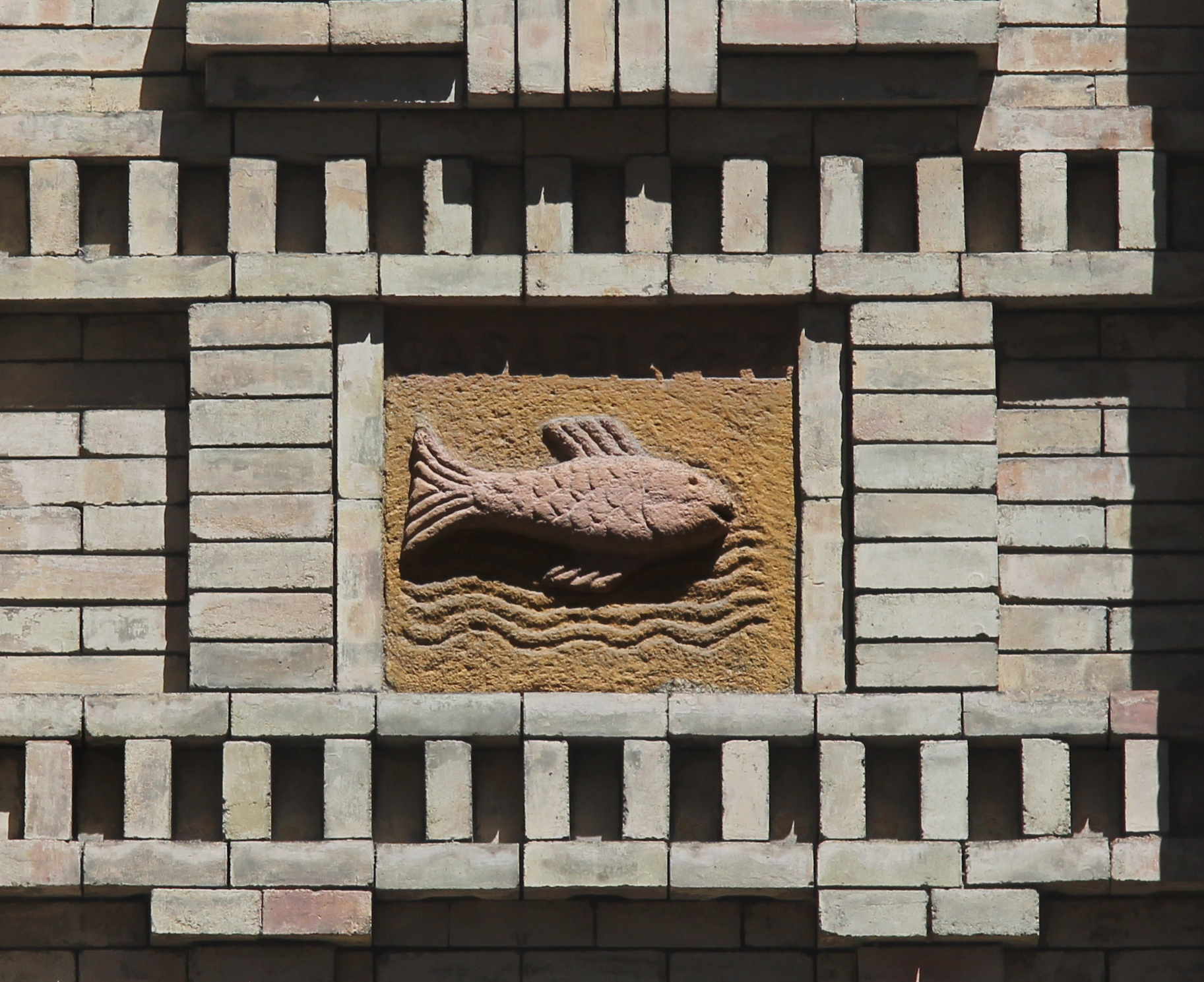 Detail of the façade of the building at 20 Calle del Pez (street) in Madrid (Spain).